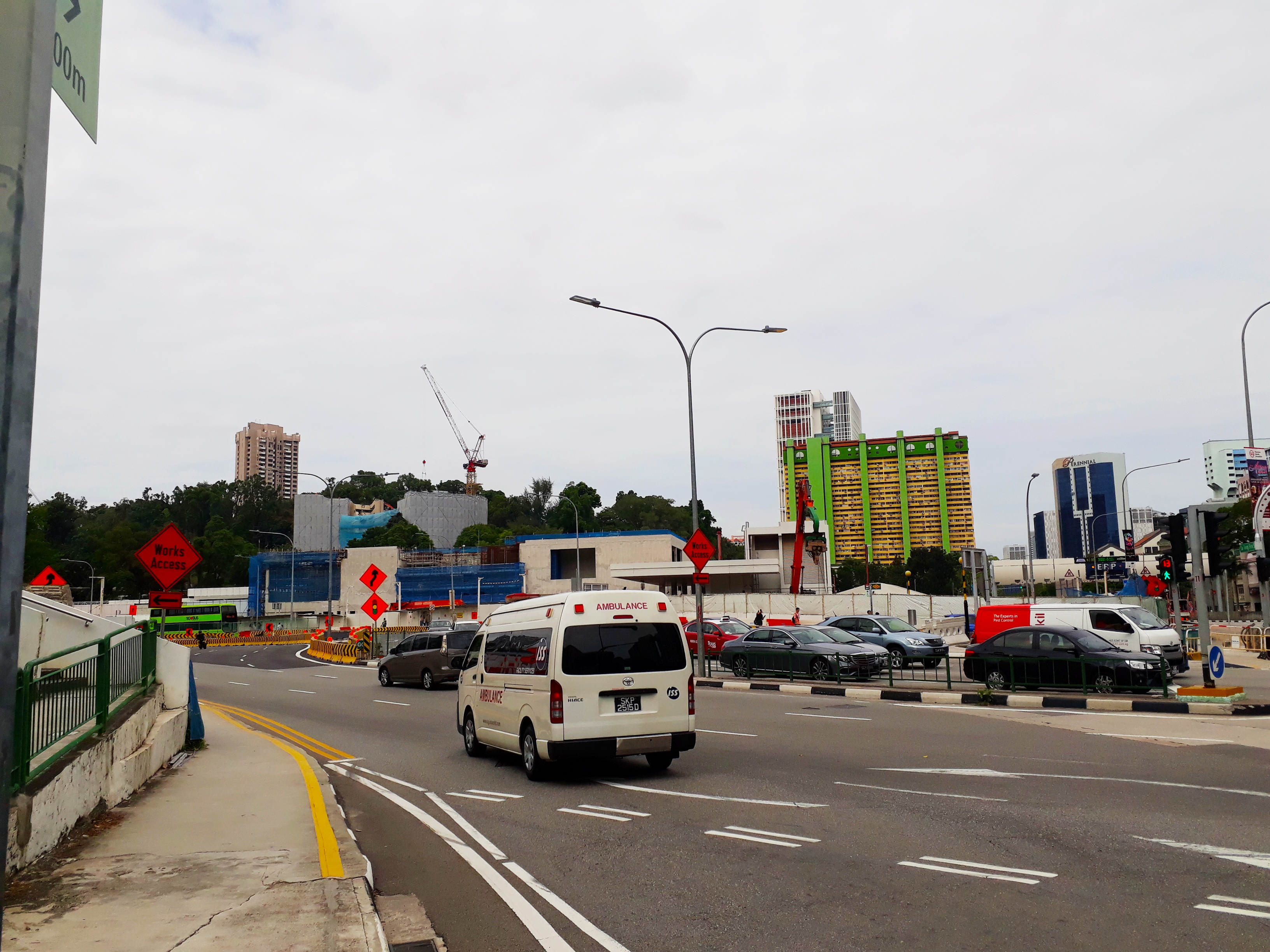 TEL Outram Park under construction